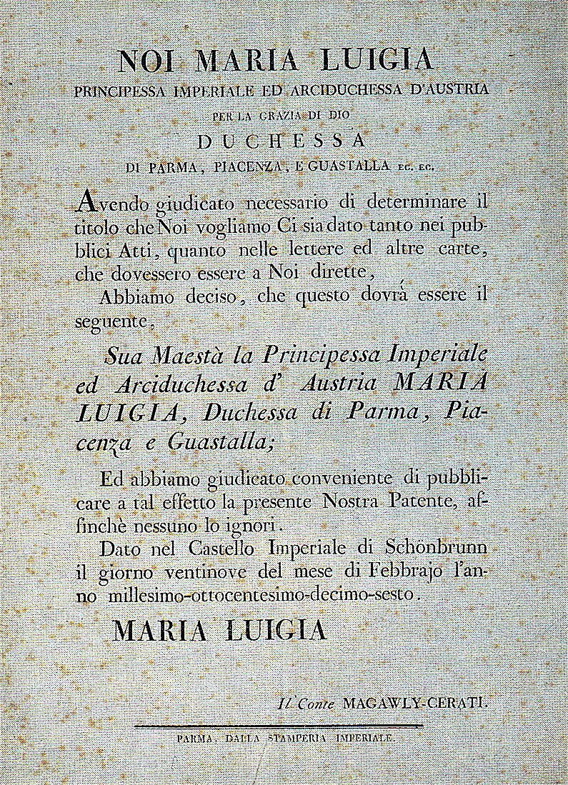 Maria Luise of Austria: Declaration of the title of Maria Luigia Duchess of Parma